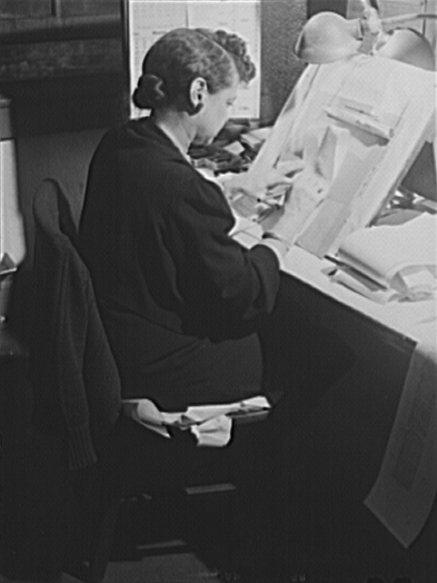 Chicago, Illinois. Copy reader of the Chicago Defender, one of the leading Negro newspapers